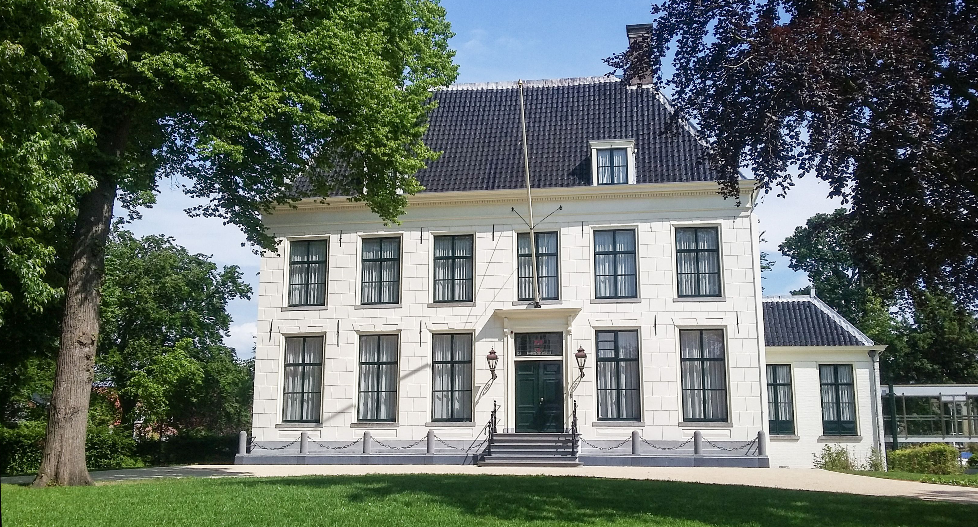 Gemeentehuis, Hillegom - The Netherlands.